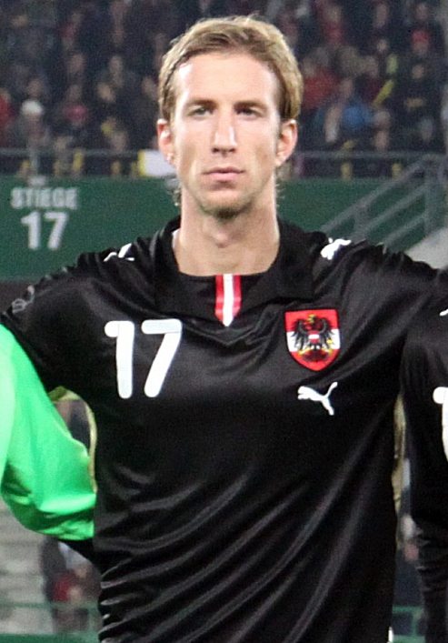 Austria national football team against Spain